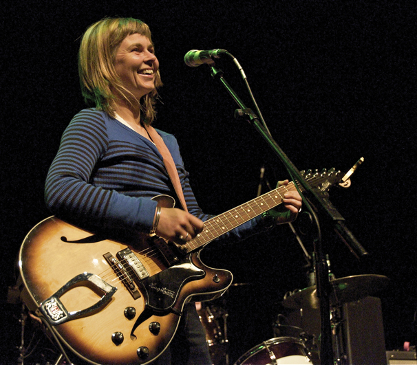 Frances McKee playing with The Vaselines, 9 October 2009, HMV Picturehouse, Edinburgh.